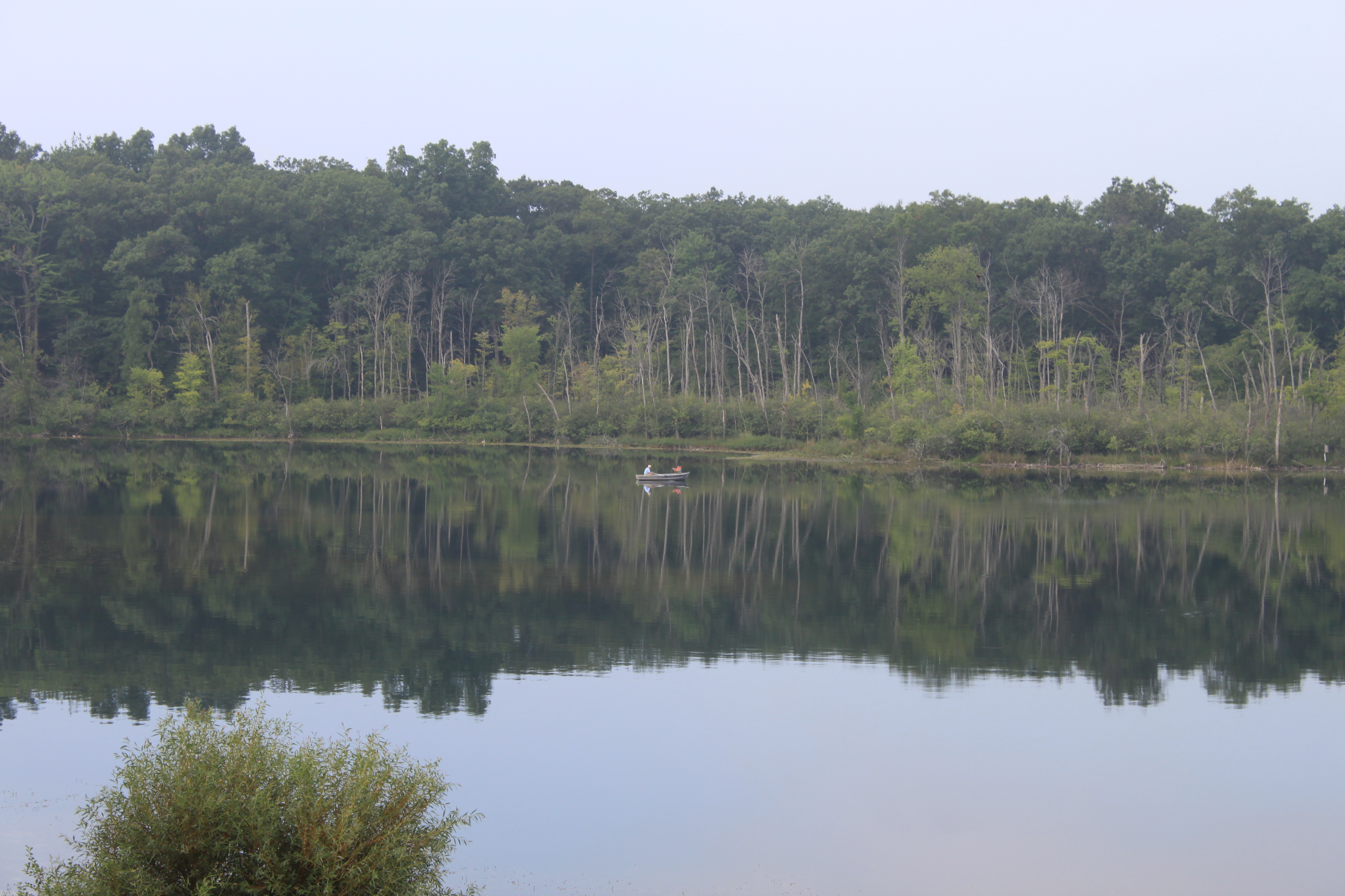 Huron Meadows Metropark, Brighton Michigan, fishing on Huron River